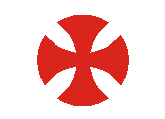 Union Army XVI Corps, Military Division of West Mississippi, 1st Division Badge